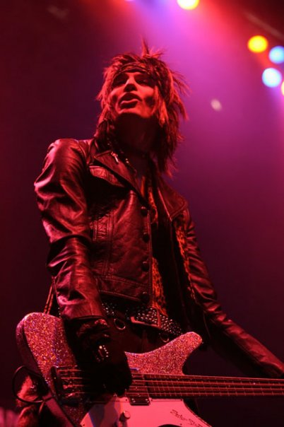 Guitarist Kenny Kweens performing. He has played in L.A. Guns and Beautiful Creatures. Photo by Ted Van Pelt.